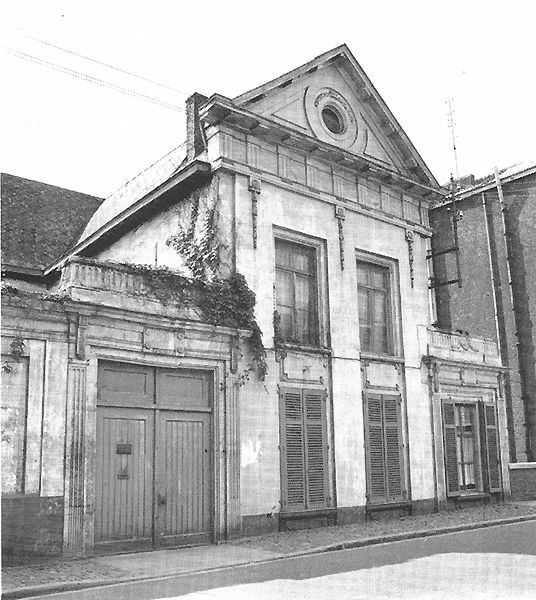 Ecole Moyenne pour Filles, first school for girls in Tienen (later 'Lyceum')